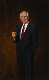 Official Congressional portrait of Texas Representative Jack Brooks